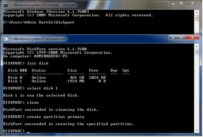 picture